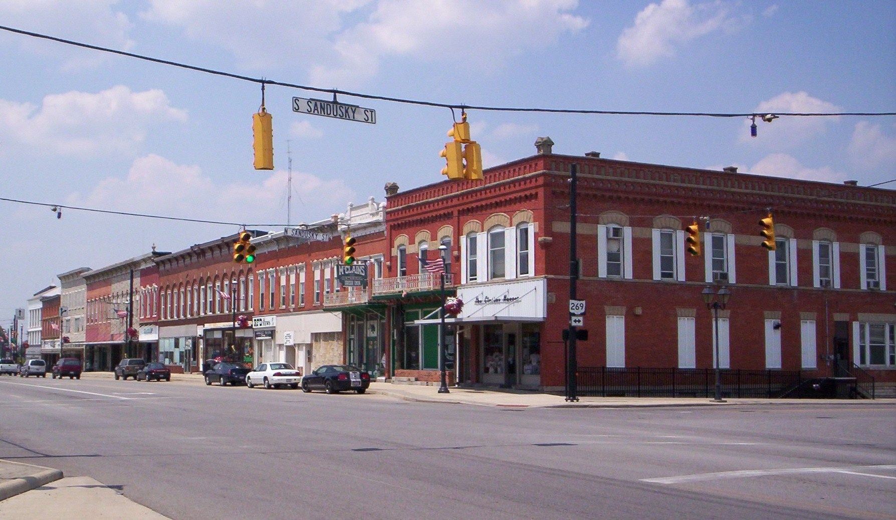 Downtown Bellevue, Ohio on East Main Street at the intersection of Sandusky Street looking west.